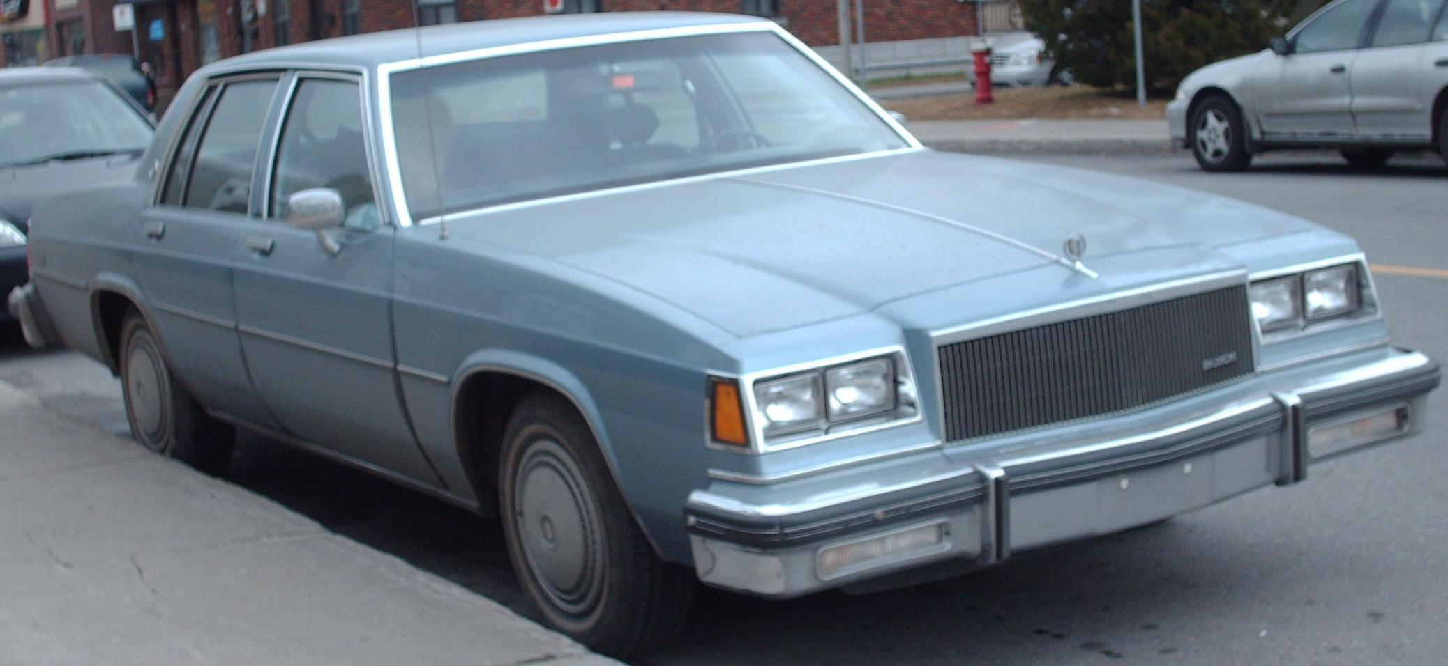 1984 Buick LeSabre photographed in Montreal, Quebec, Canada.